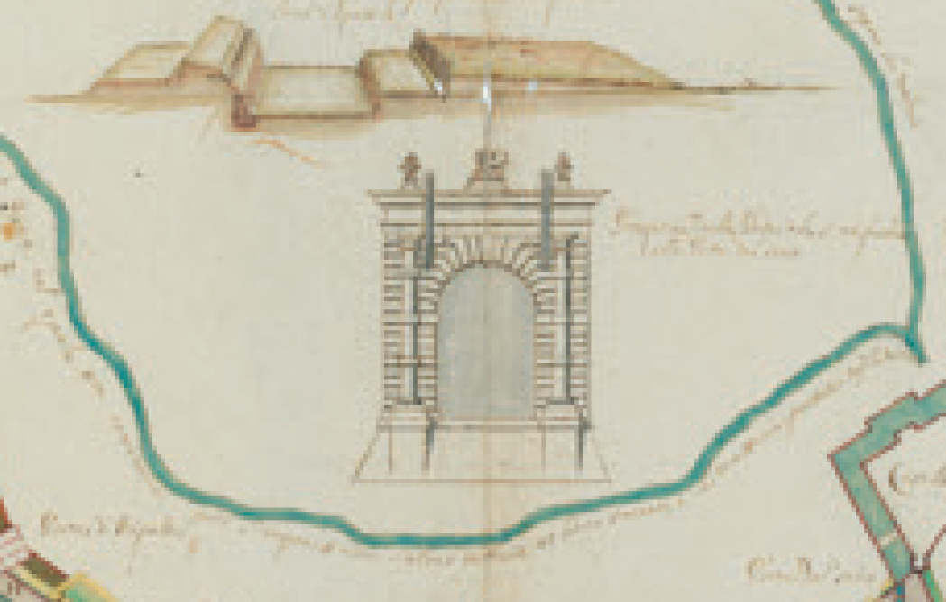 Porta Serio in Crema (Italy), as it appears on the historical map of an unknown author, year 1681, pen drawing and sepia ink, with watercolor paintings, on paper, kept at the public library of Treviso